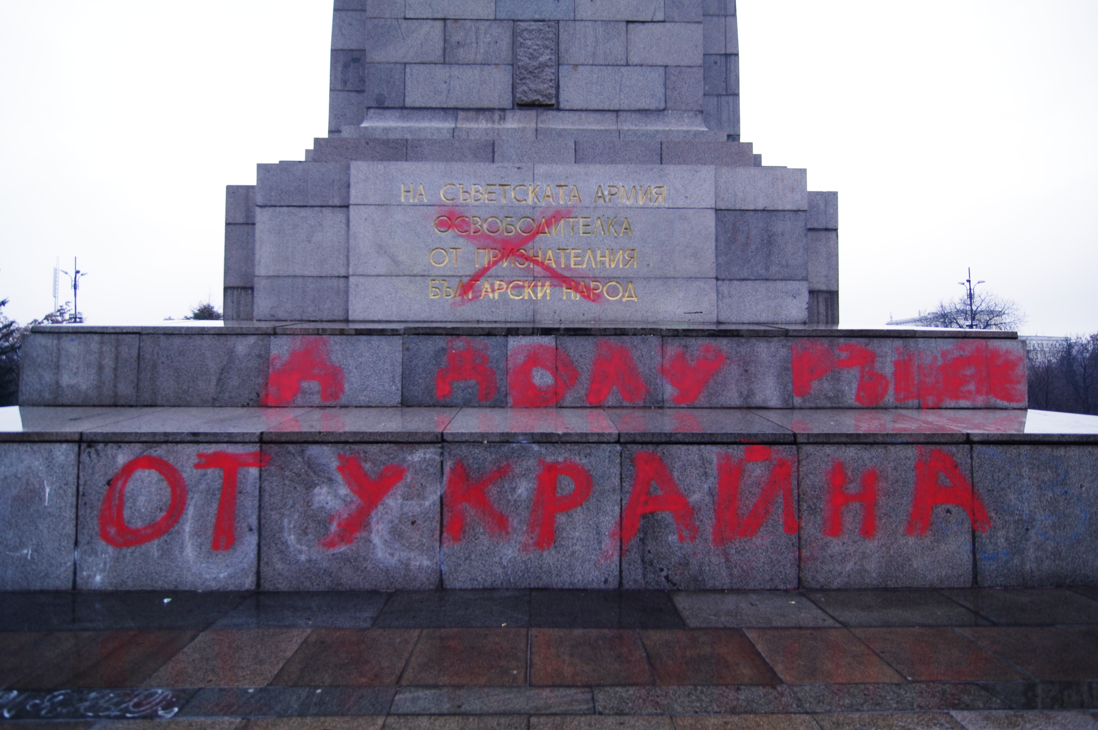 The Monument to the Soviet Army, Sofia with the inscription "Hands off Ukraine".